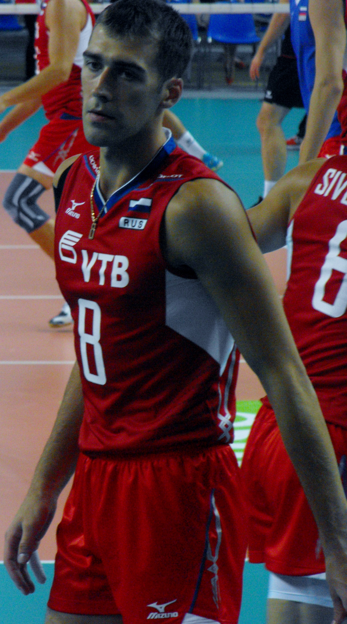 Denis Biryukov before Memoriał im. Huberta Jerzego Wagnera in Plock, Poland 2013